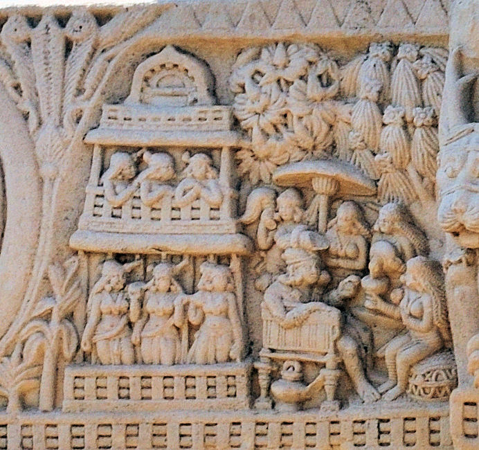 King of the Mallas under siege